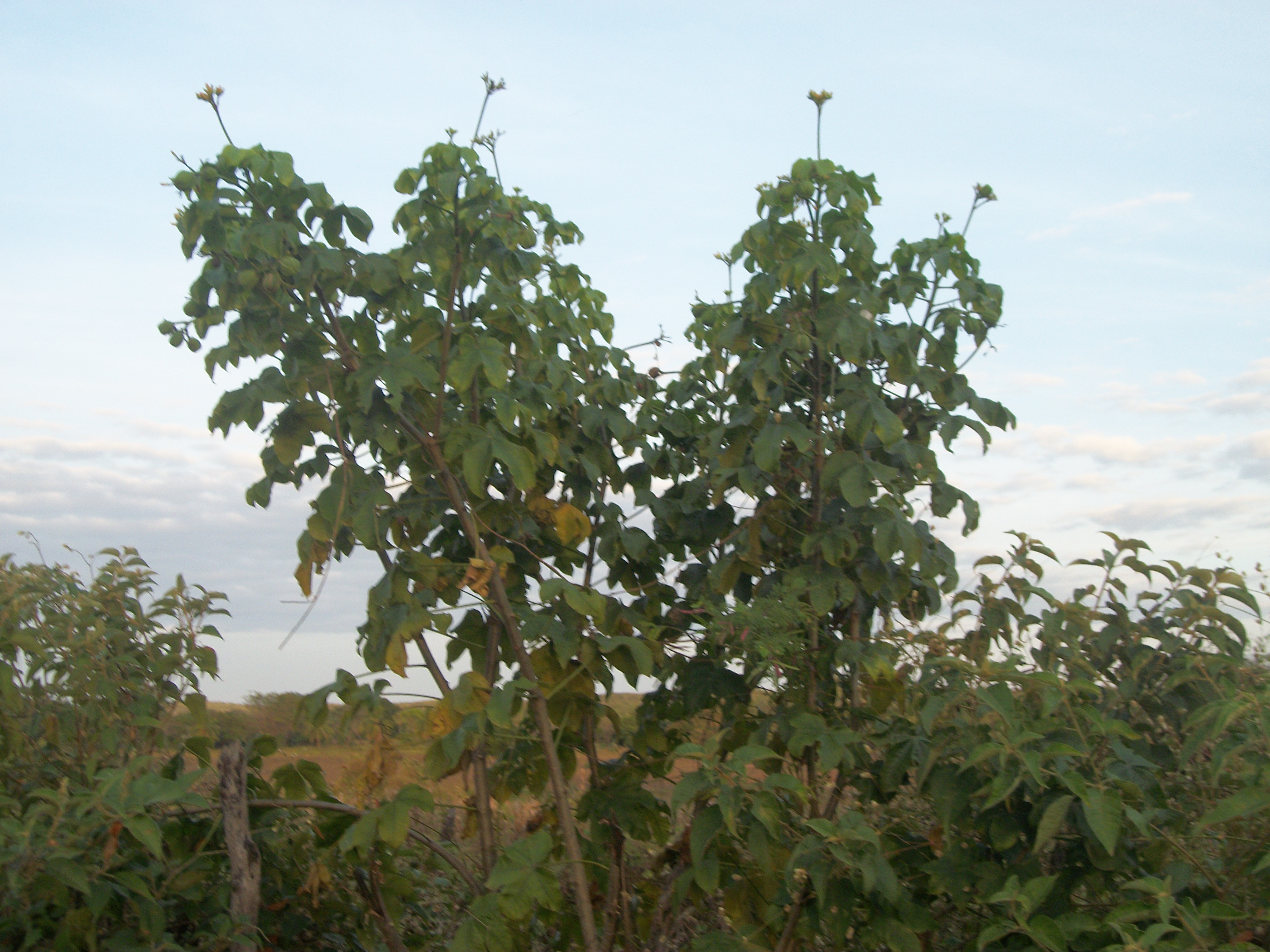 Angry-pinion in Lavras da Mangabeira, town in the interior of Ceará